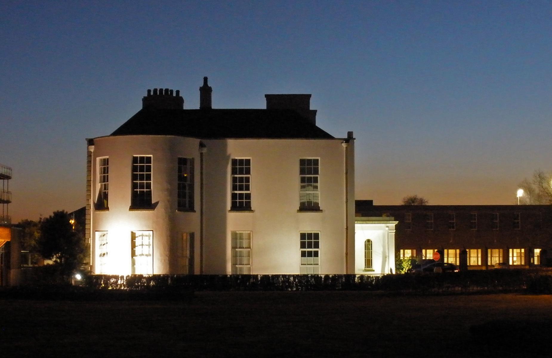 Bushy Park House in Templeogue, Dublin, the Convent of the Sisters of the Religious of Christian Education (Our Lady's School). The sisters bought the house and 20 acres of land including woodland and pond from Dublin Corporation in 1953. Five acres of woodland and pond were sold back to the city in 1991.